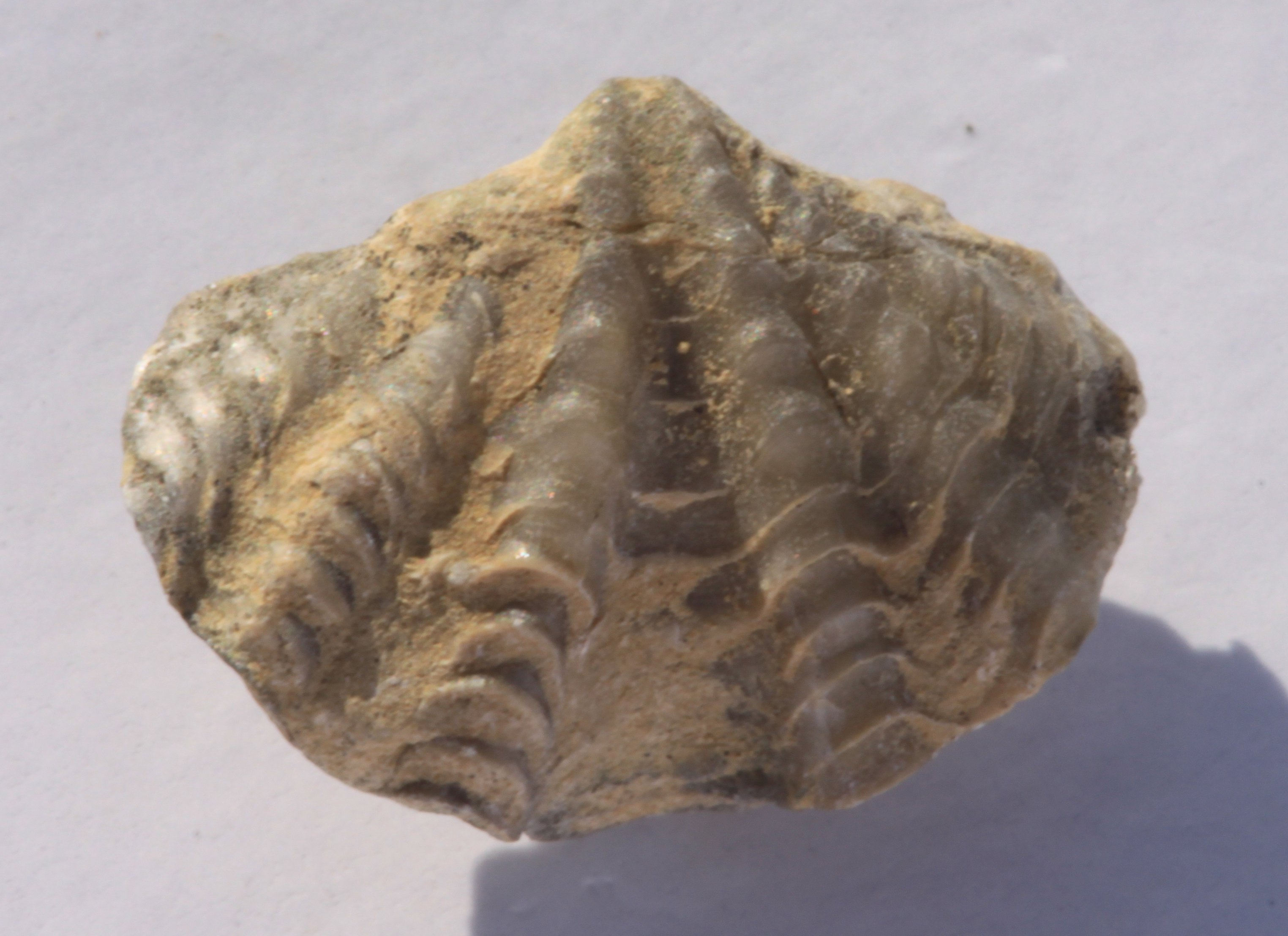 A Spirifer perlamosus lampshell, Order Spiriferida, family Spiriferidae, 19mm along the axis, pedunculate valve, collected at Rock Crossing on Hickory Creek, Criner Mountains, about 7 miles South of Ardmore, Oklahoma, USA, in the year 1965, from the early Upper Ordovician (Sandbian) (Pooleville Member, Bromide Formation, Simpson Group, Black River Series)